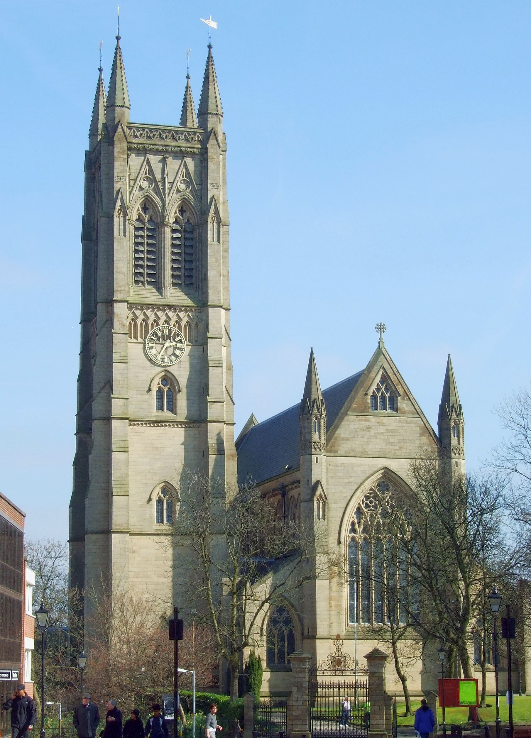 St Peter's Church, the parish church of Bolton, Greater Manchester, England.